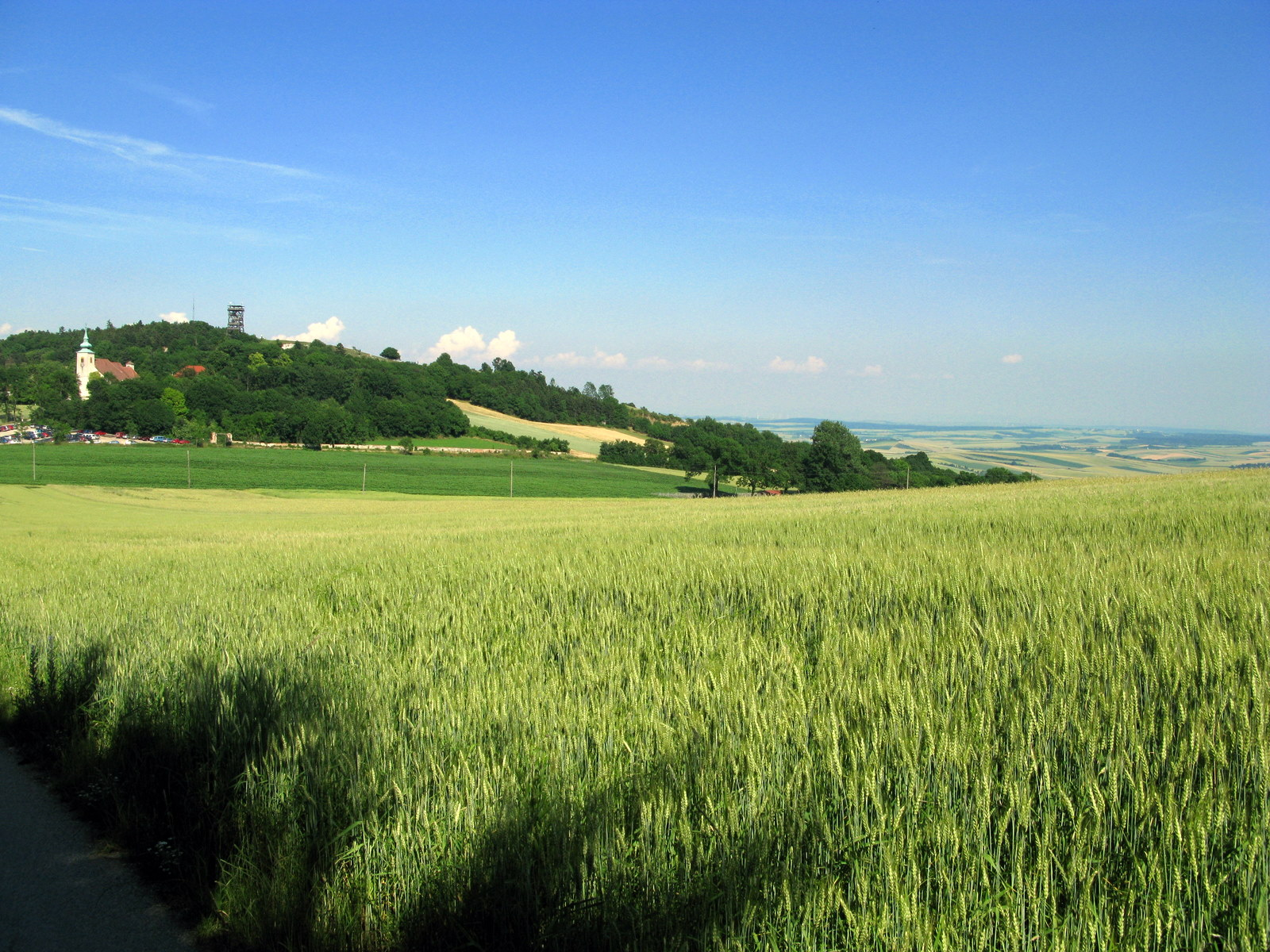 Oberleis (50 km from Vienna) in Lower Austria / Austria / EU. Far grain fields in a hilly landscape. On the hill of the replica of a Roman observation tower. Blue sky with some clouds.